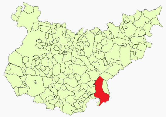 Azuaga